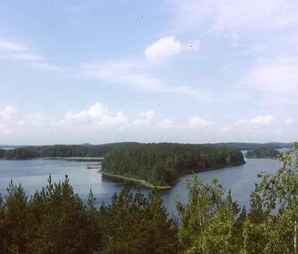 Island of Tikansaari in the lake Pyhäselkä, Finland. Picture has been taken from Vuoniemi, Rääkkylä, Finland